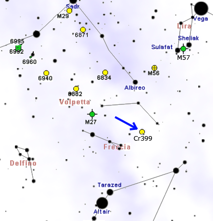 Cr399